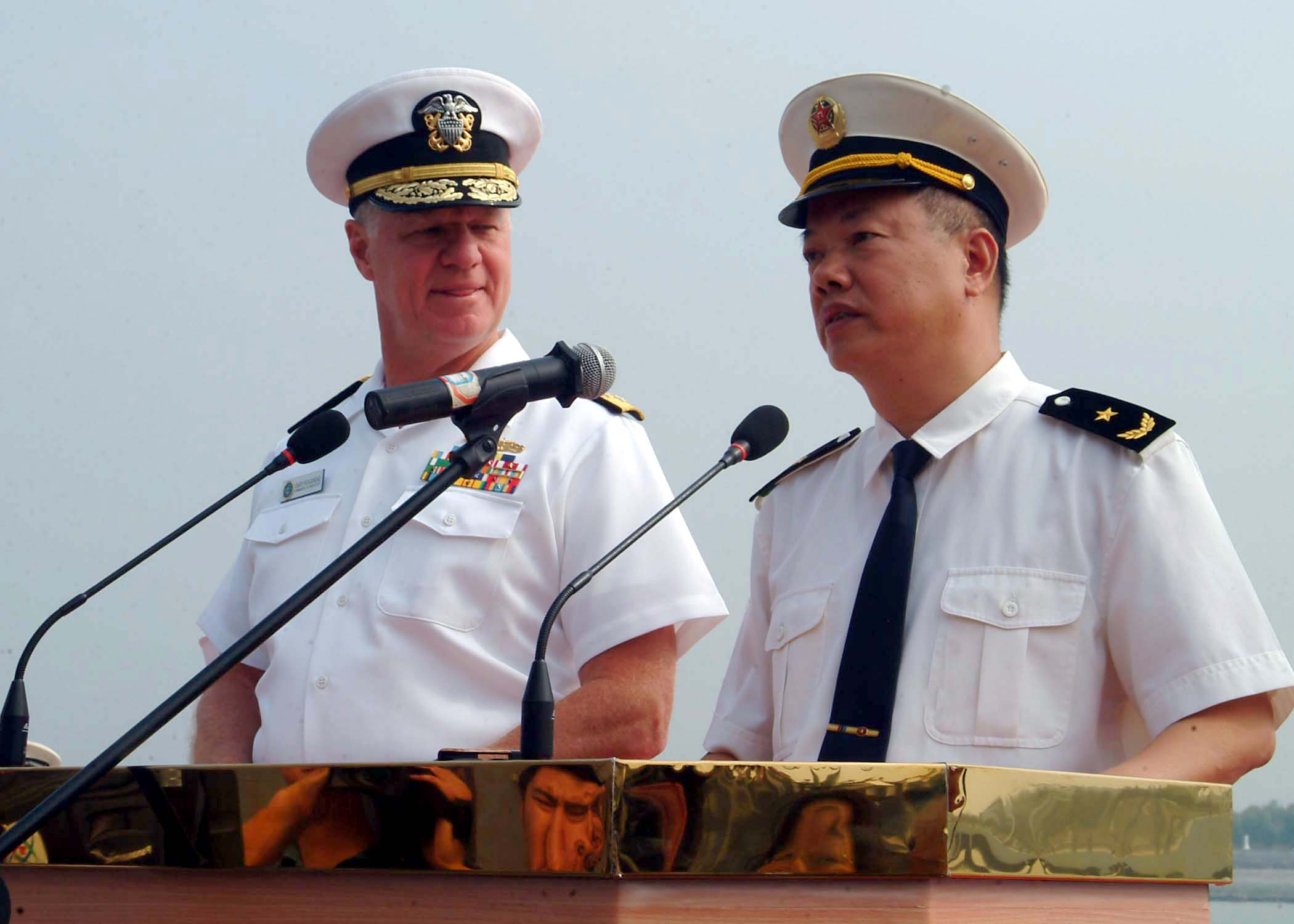 Zhanjiang, People’s Republic of China (Nov. 15, 2006) - Commander, U.S. Pacific Fleet Adm. Gary Roughead and Rear Adm. Lin Yongain, People’s Liberation Army (Navy) Deputy Chief of Staff for the South Sea Fleet (SSF) conduct a press conference following the arrival of the amphibious transport dock USS Juneau (LPD 10) for a scheduled port visit and a search and rescue exercise (SAREX). Juneau’s port visit and SAREX is intended to increase transparency and cooperation between the two navies and nations. U.S. Navy photo by Mass Communication Specialist 2nd Class Michael Gomez (RELEASED)